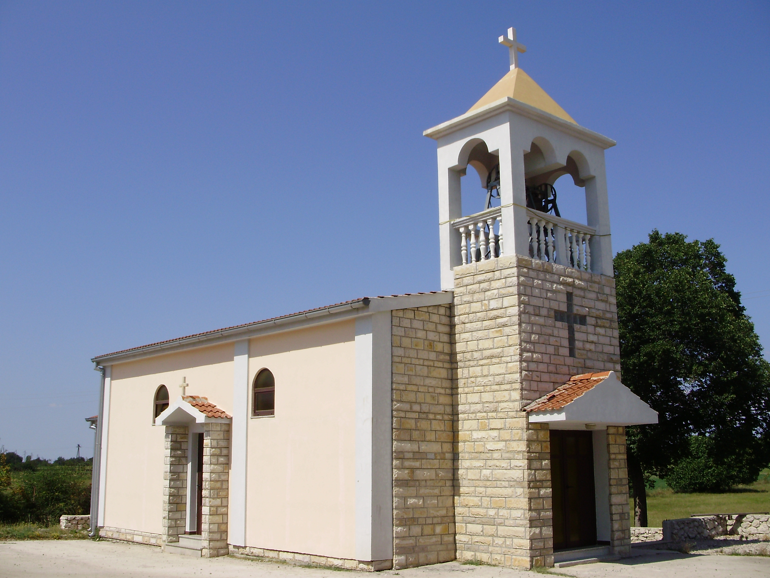 St. Michael church in Dobra Voda ,Benkovac